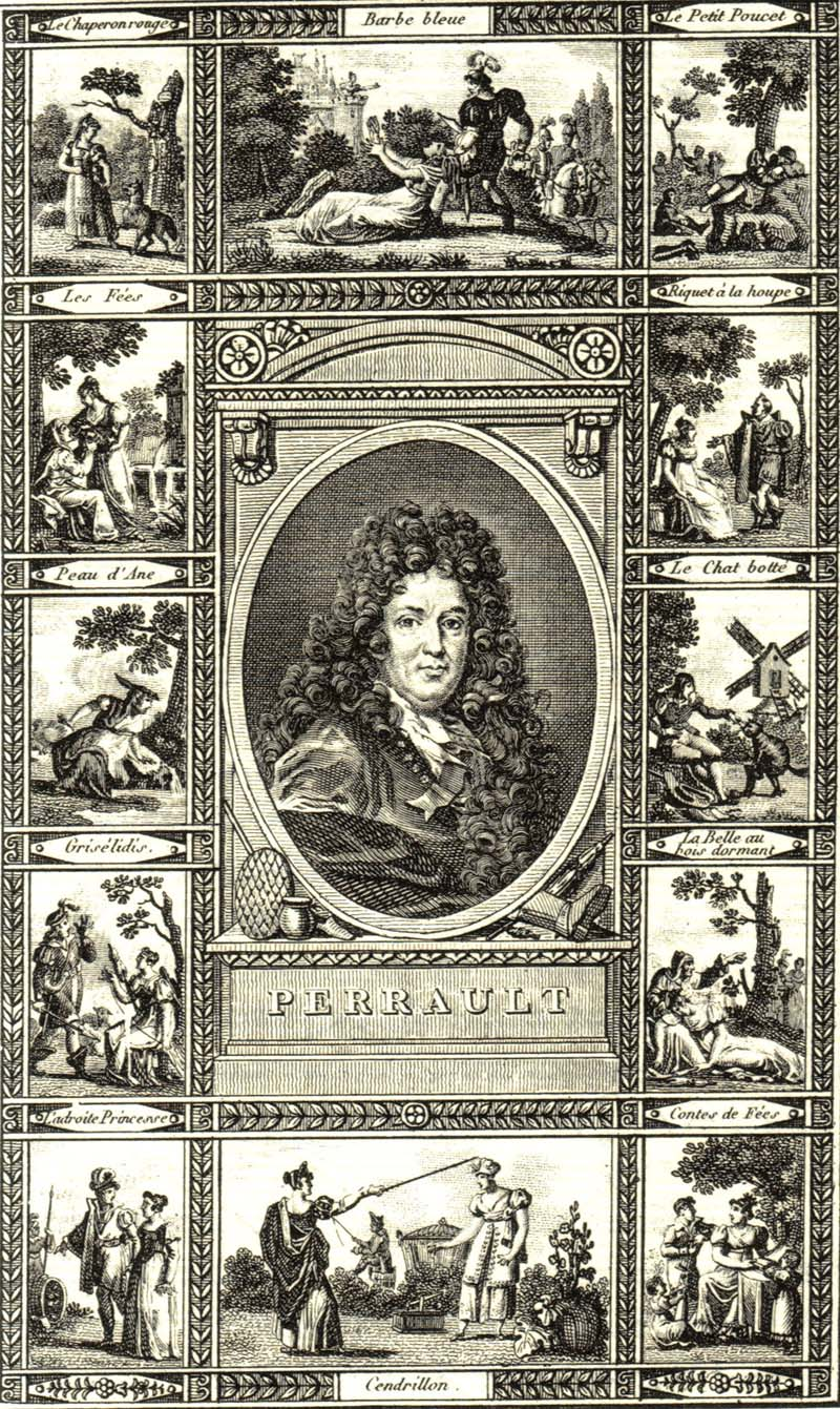 Engraving of French author Charles Perrault (1628-1703)